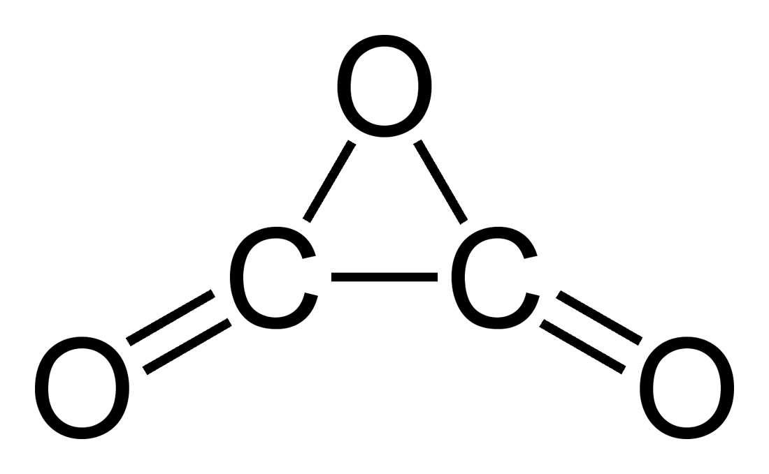 Structural formula of the oxalic anhydride molecule, C2O3.